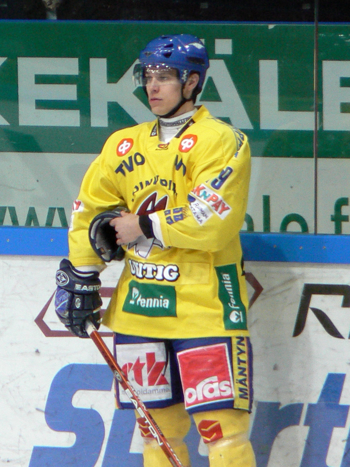 Finnish ice hockey winger Mika Viinanen playing for Lukko Rauma in March, 2008.